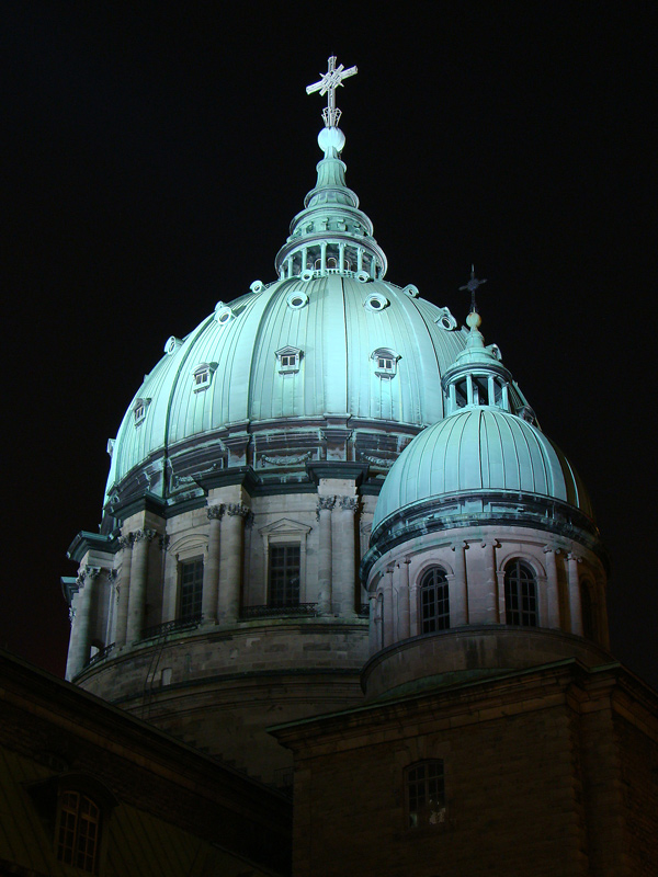 Cathedral-Basilica Mary Queen of the World, Montreal, Quebec, Canada.